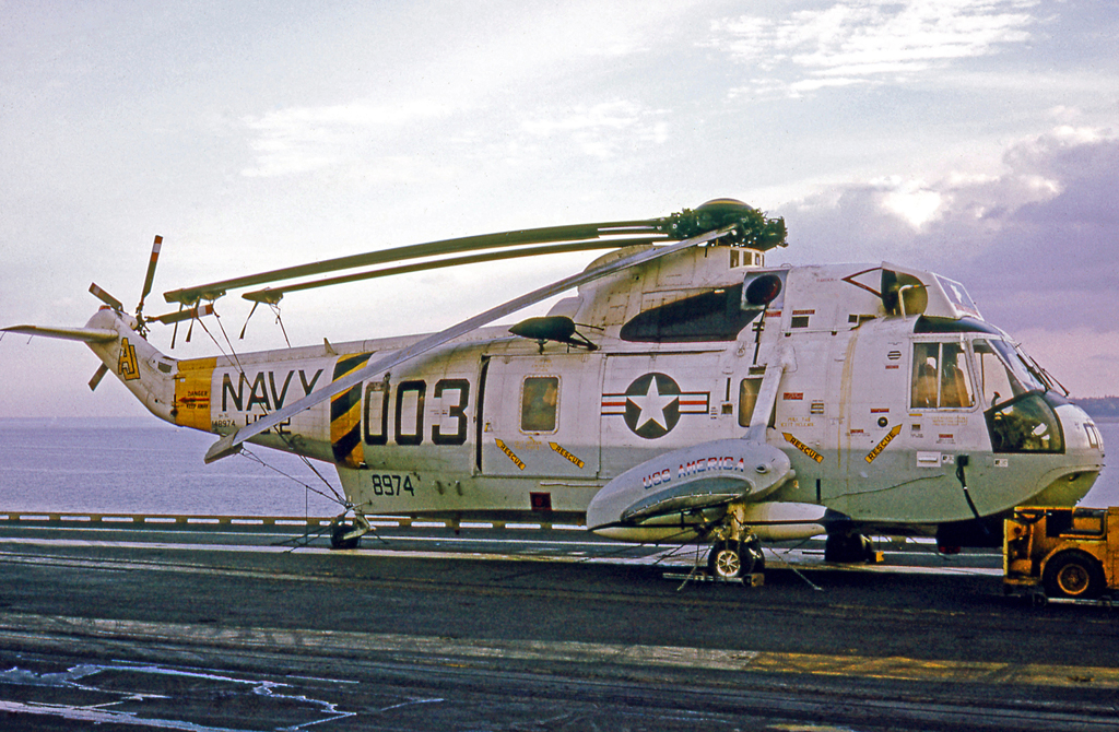 A U.S. Navy Sikorsky SH-3G Sea King (BuNo 148974) of Helicopter Combat Support Squadron 2 (HC-2) Det. 66 "Fleet Angels" aboard the aircraft carrier USS America (CVA-66) in Portsmouth Harbour, England (UK), in 1974. HC-2 Det.66 was assigned to Attack Carrier Air Wing 8 (CVW-8) aboard the America during the NATO exercise "Northern Merger" from 6 September to 12 October 1974.